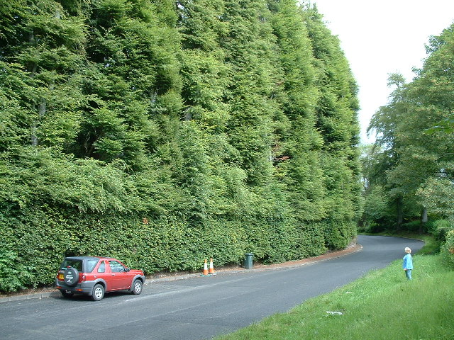 World's tallest hedge. The Meikleour hedge is officially the world's tallest and longest hedge. Made solely of beech trees, it reaches an average height of 30m and is a third of a mile long